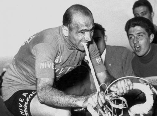 Fiorenzo Magni during the 1956 Tour of Italy. Magni fractured his collarbone during the race. He attached a rope to the handle bar and pulled it with his teeth to reduce the load on the injured hand. He finished in second place.